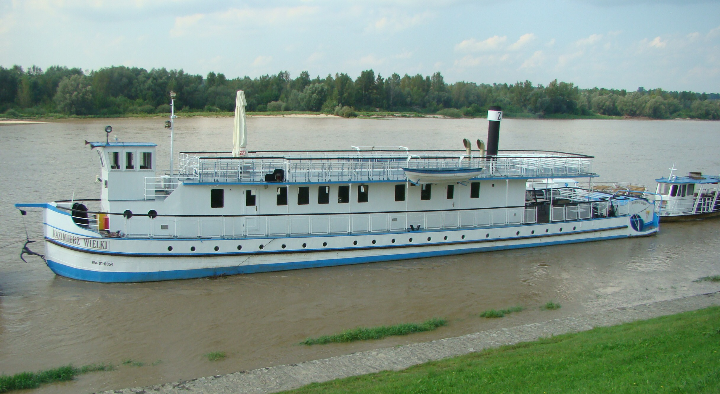 Kazimierz Wielki ship on the Vistula in Kazimierz Dolny, Poland